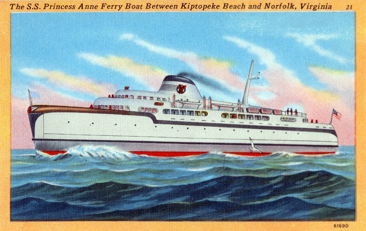 The S. S. Princess Anne Ferry Boat between Kiptopeke Beach and Norfolk, Virginia